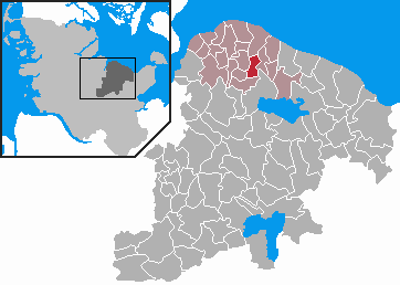 This map shows the area of the Gemeinde (municipality) Höhndorf in the Kreis (district) Plön, Schleswig-Holstein, Germany.